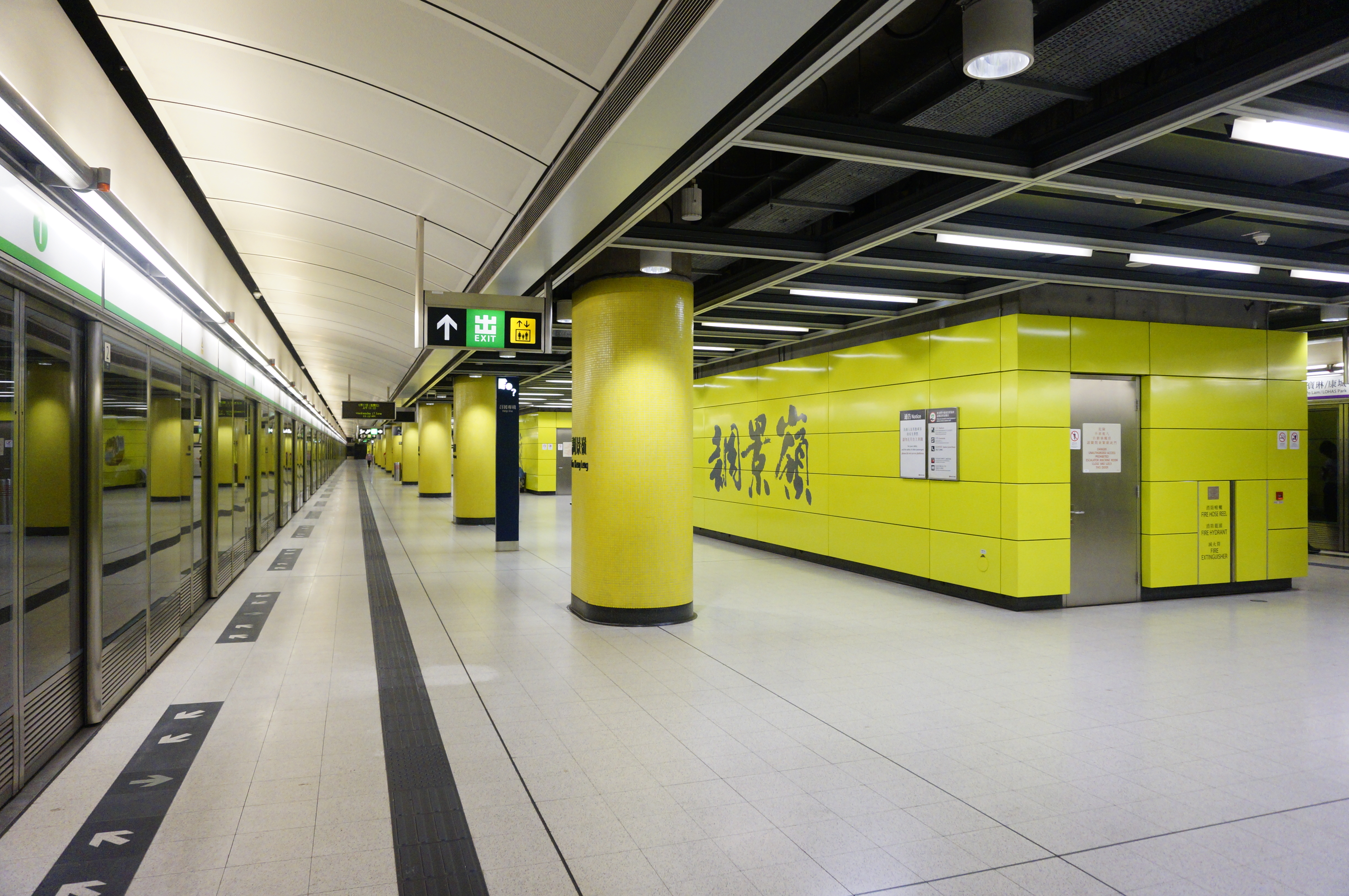 MTR Tiu Keng Leng station Platform 1